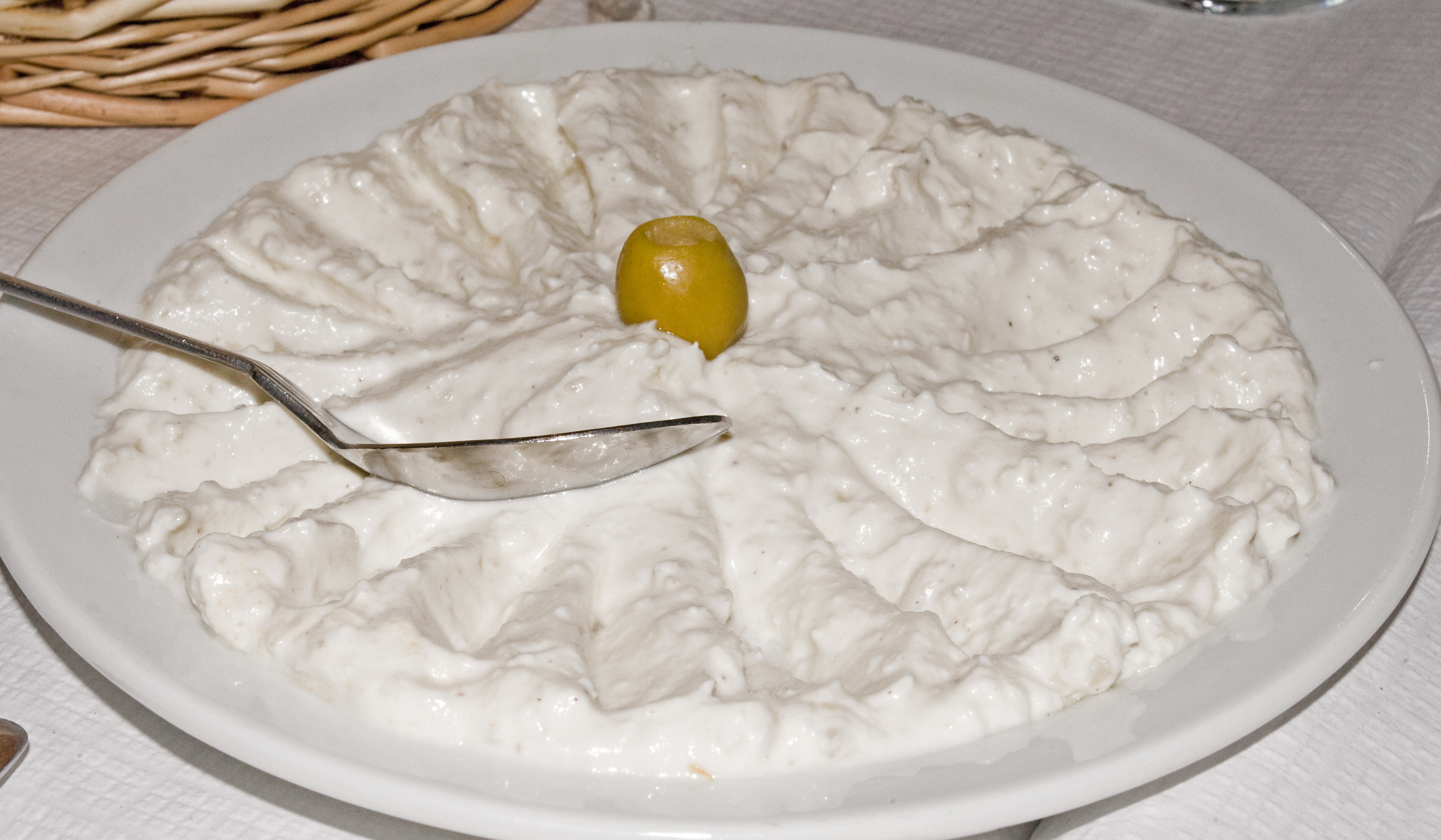 Mast-o Mosier